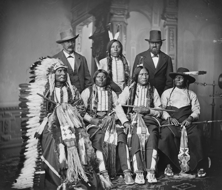 Group of Sioux and Arapaho Indians at the Sioux Delegation of 1877 in Washington D.C. (photo c. 1877) Standing: Joe Merrivale; Young Spotted Tail; Antoine Janis; Seated: Touch-the-Clouds (Oglala); and Northern Arapaho leaders Sharp Nose, Chief Black Coal (Northern_Arapaho); and Friday Worshinun [1]